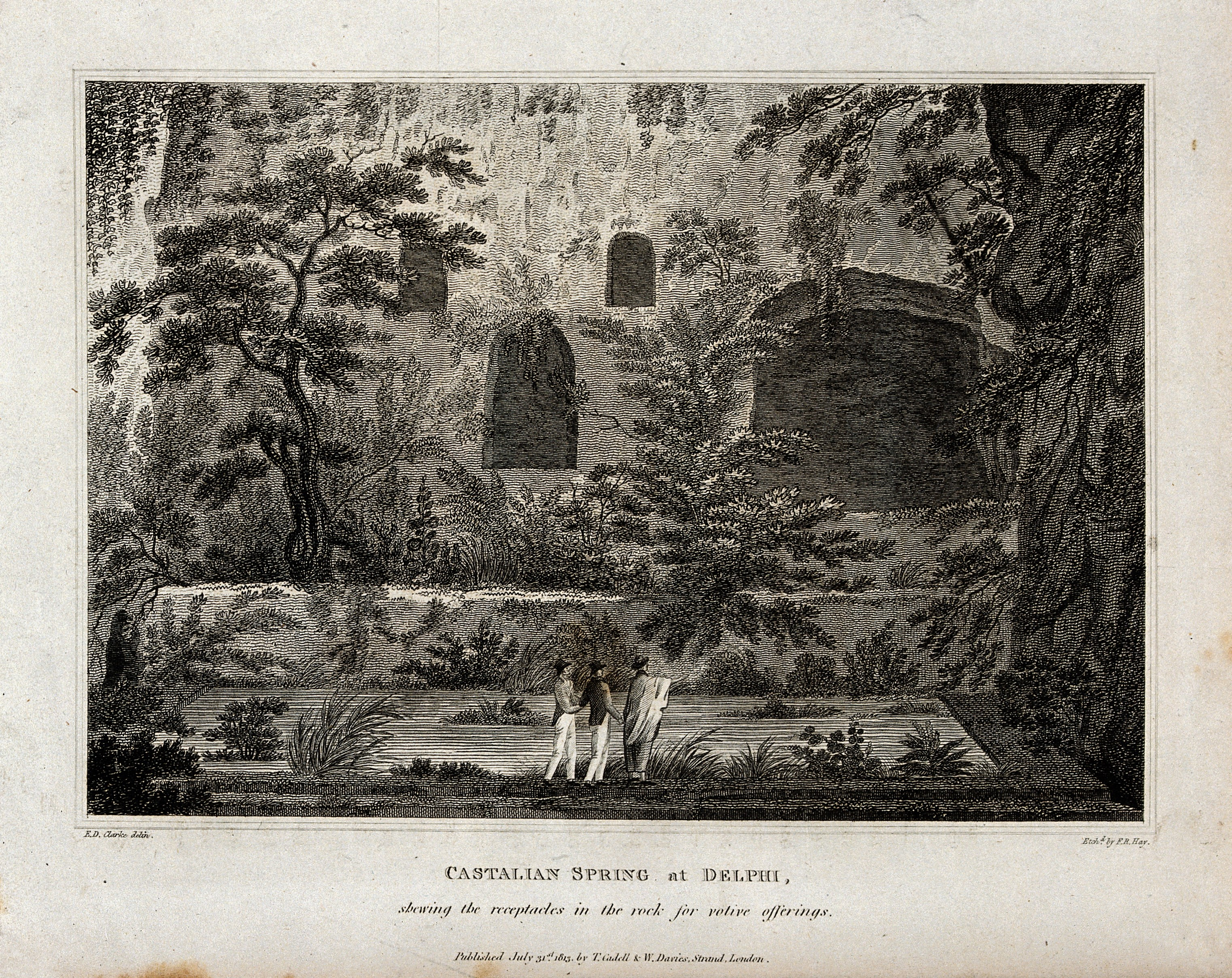 Castalian spring at Delphi; the cavities in the rock are for votive offerings. Etching by F.R. Hay, 1813, after E.D. Clarke. Iconographic Collections Keywords: E.D. Clarke; Frederick Rudolph Hay